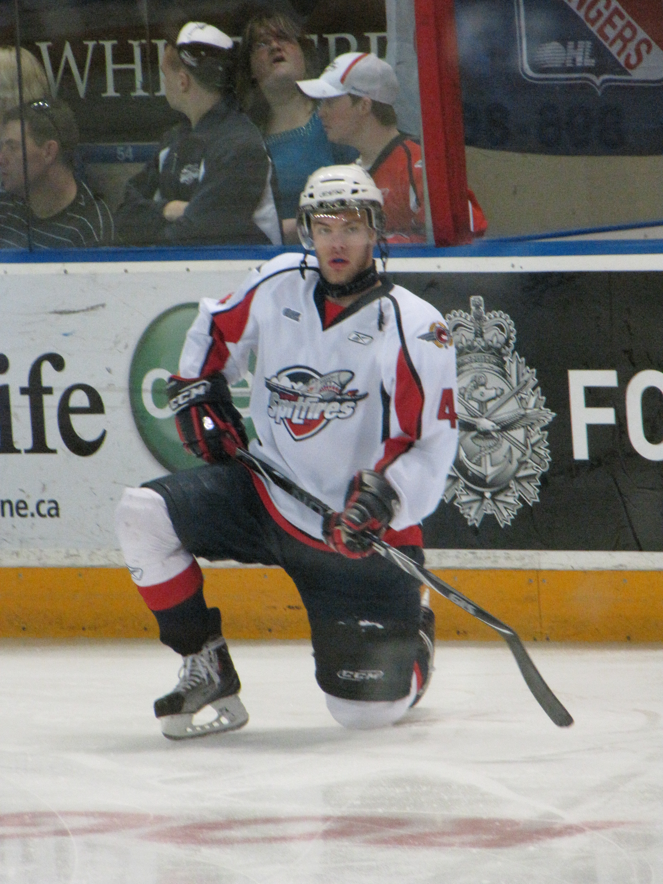 Taylor Hall warming up pre-game during playoffs.